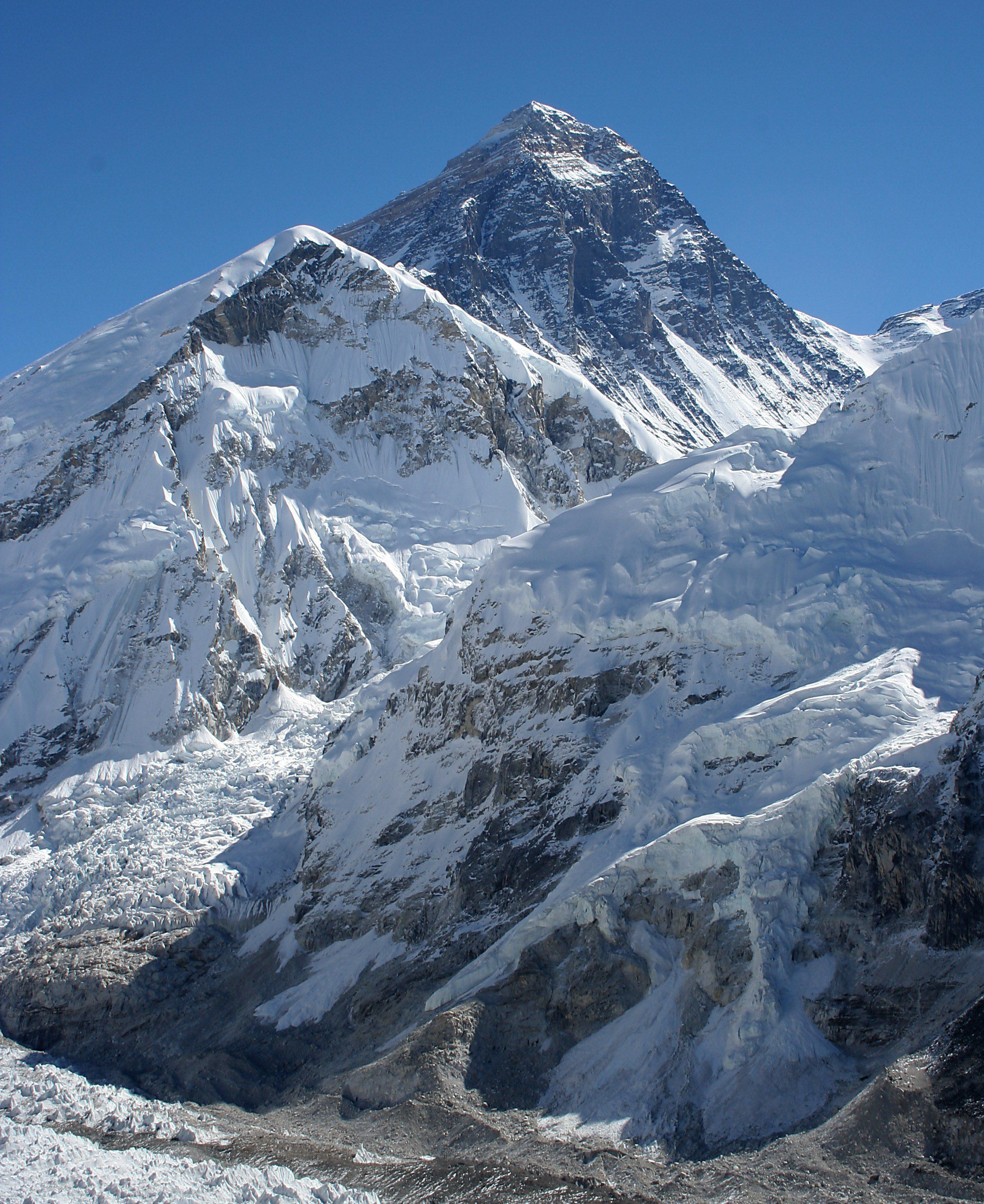 Mount Everest from Kalapatthar.